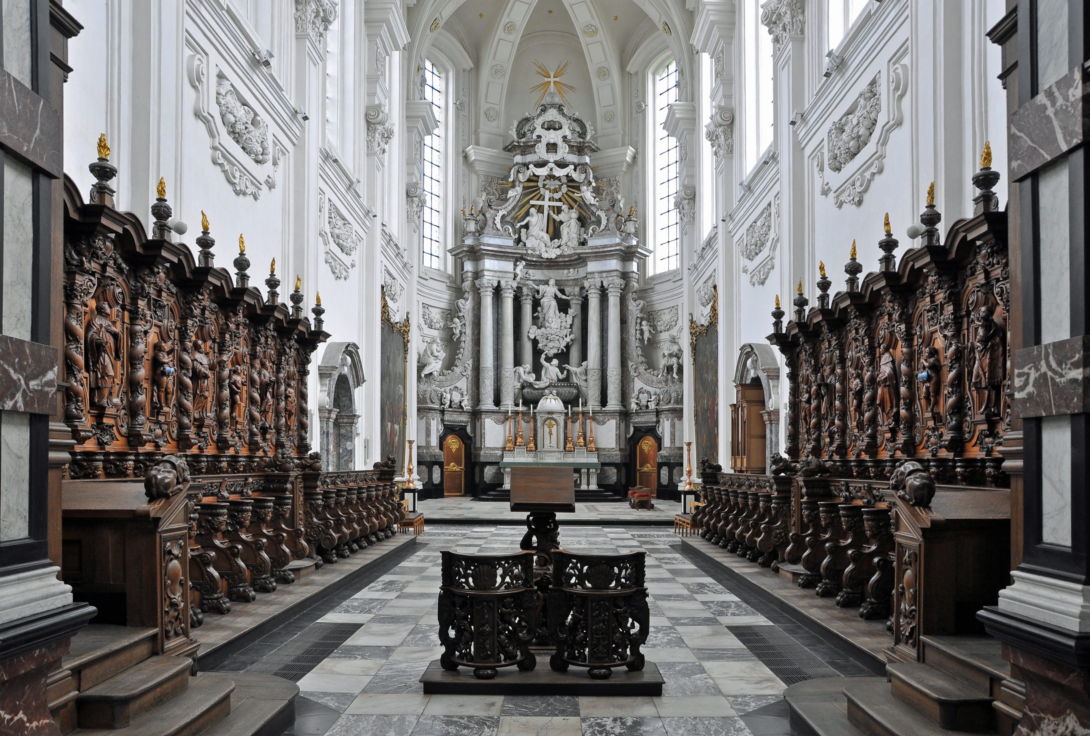 Averbode Abbey (Belgium): interior of the church.